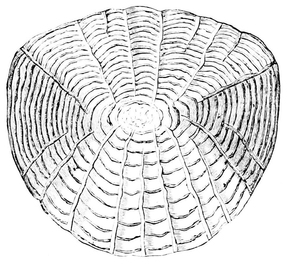 Scale of minnow